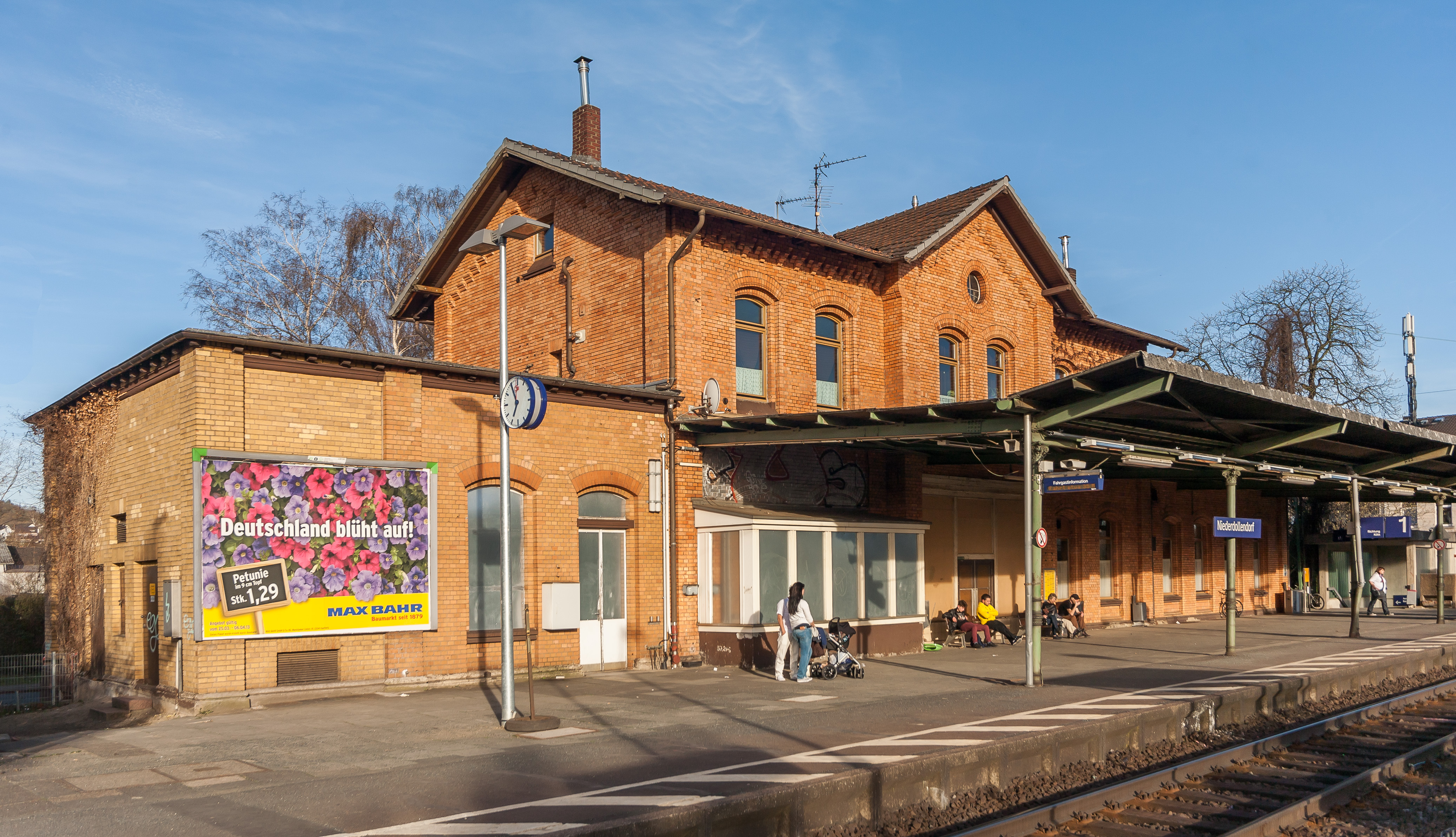 Niederdollendorf station, Proffenweg 4, Königswinter-Niederdollendorf